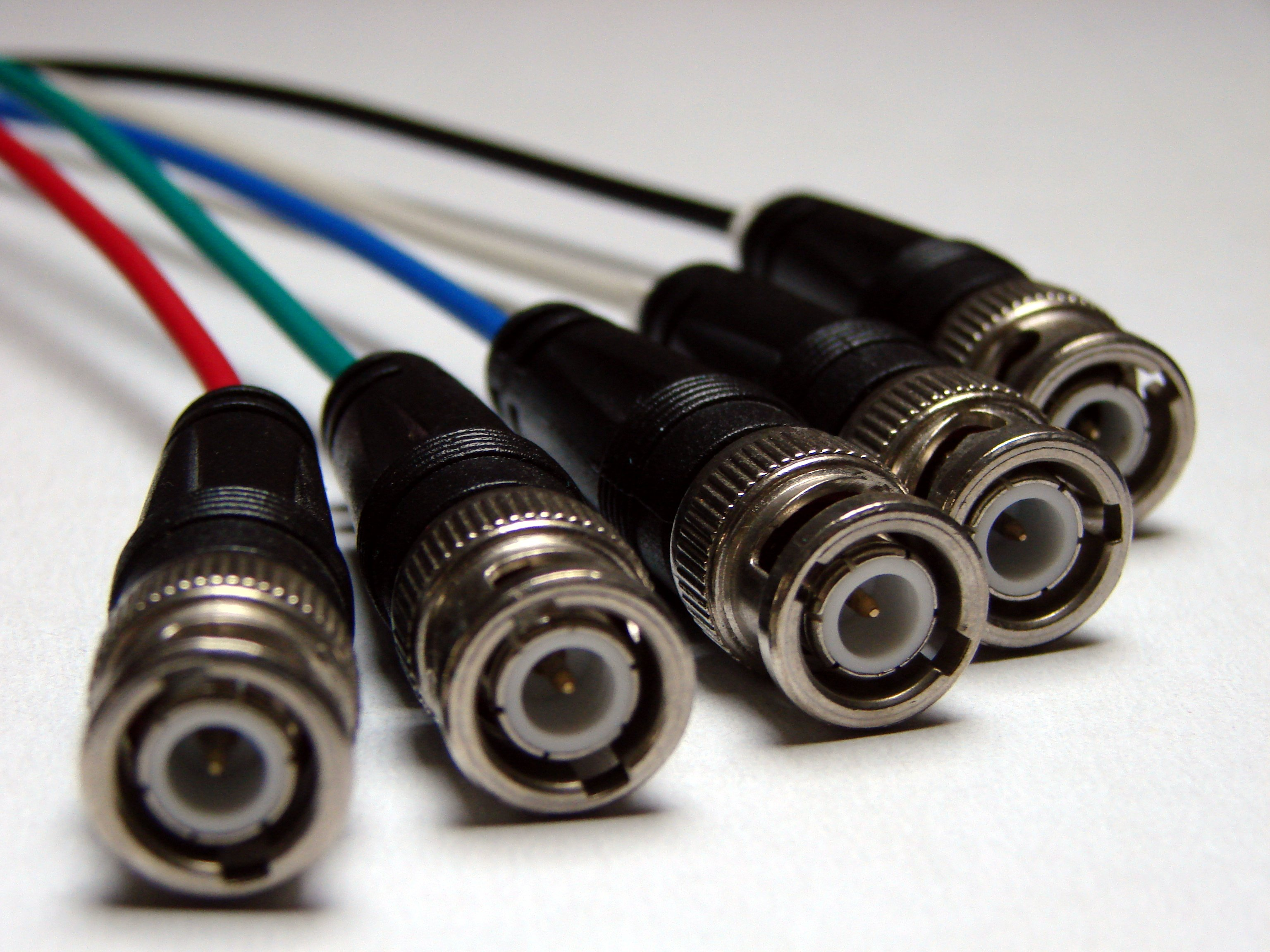 BNC connectors used to connect video card to monitor